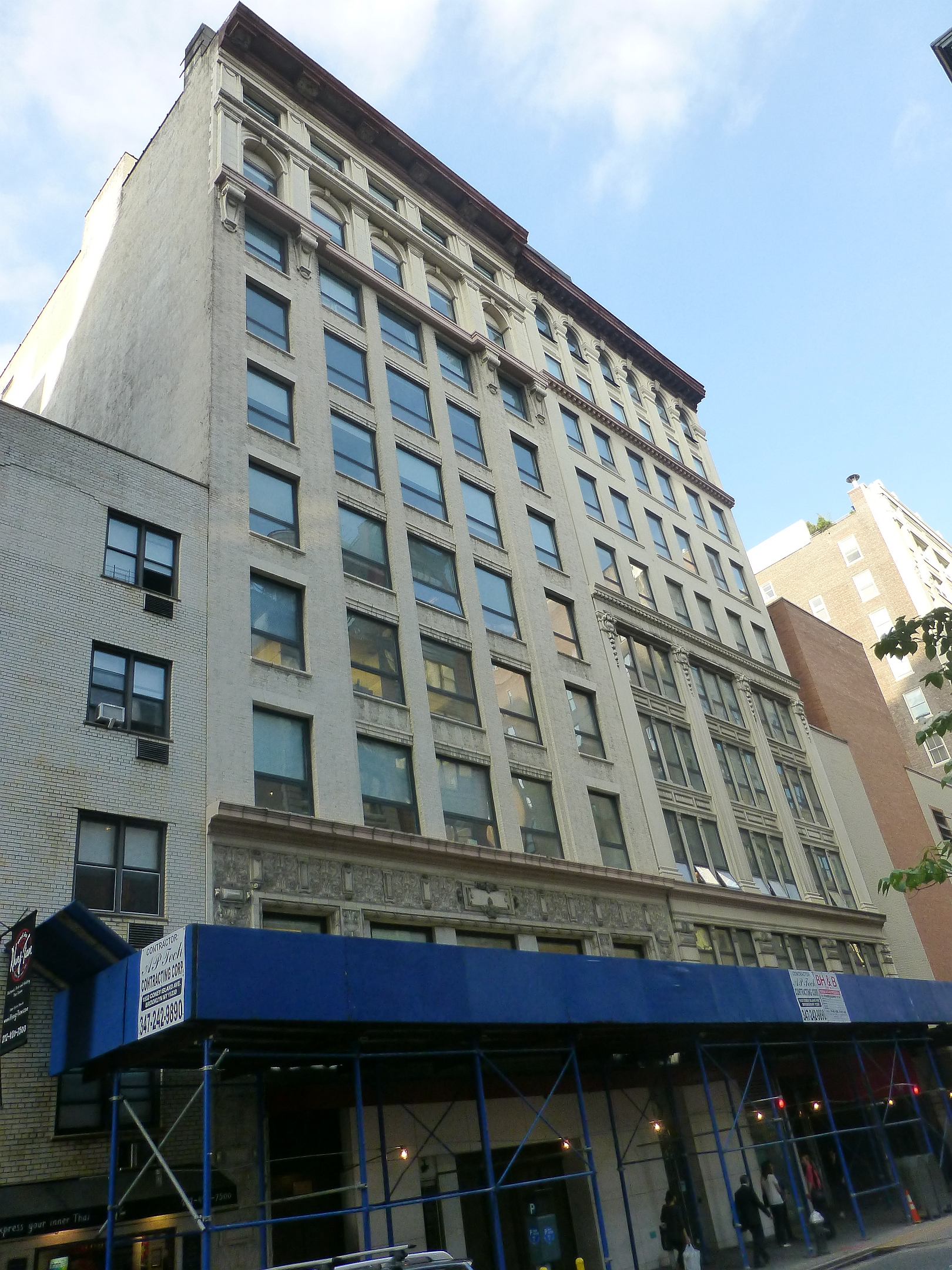 Oficinas de Tumblr en 35 East 21st en el 20 de mayo del 2013. Las oficinas se colocan en el sexto piso del edificio a la izquierda.